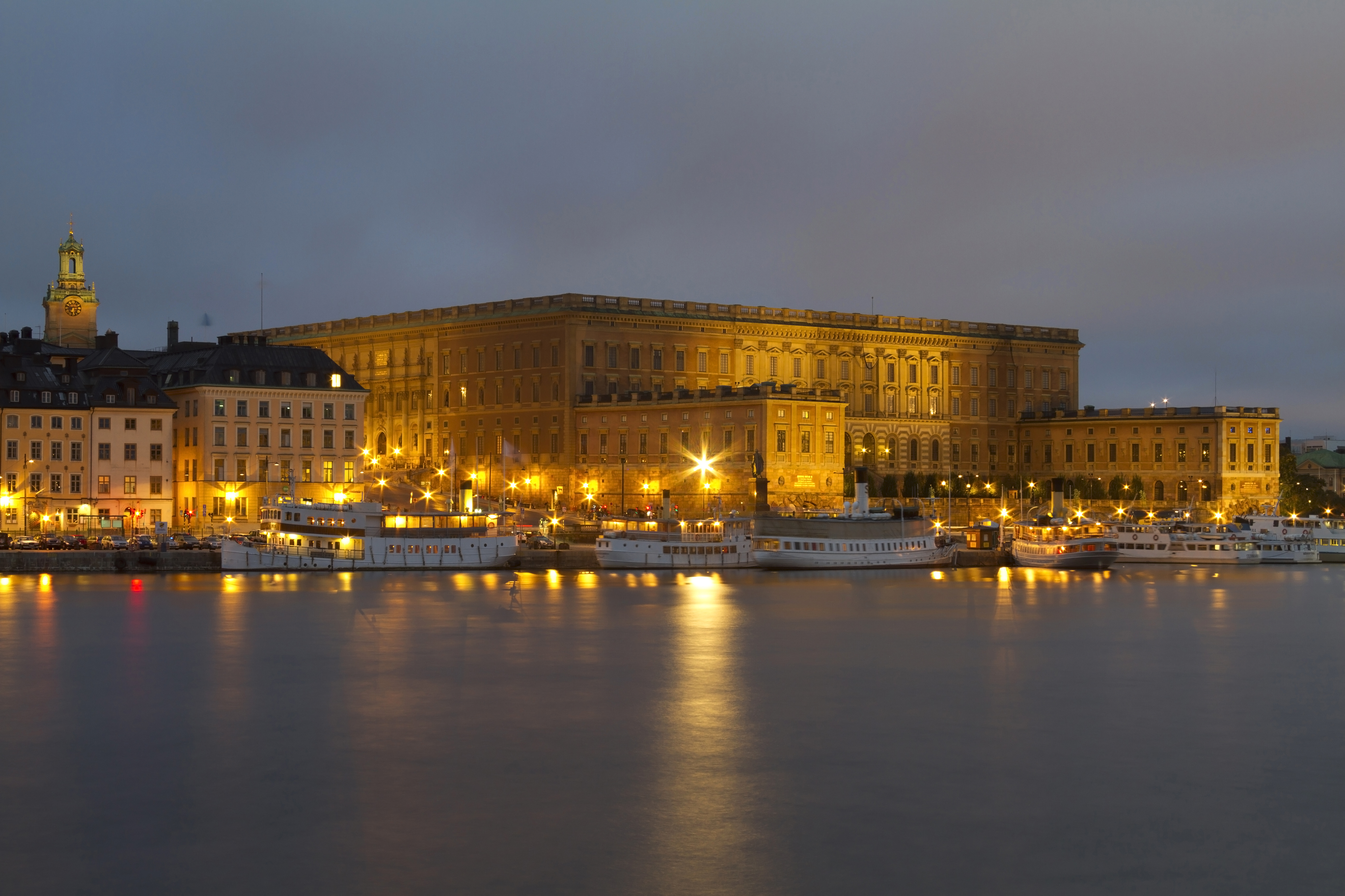 The Royal Palace in Stockholm City, Sweden in an early morning view.